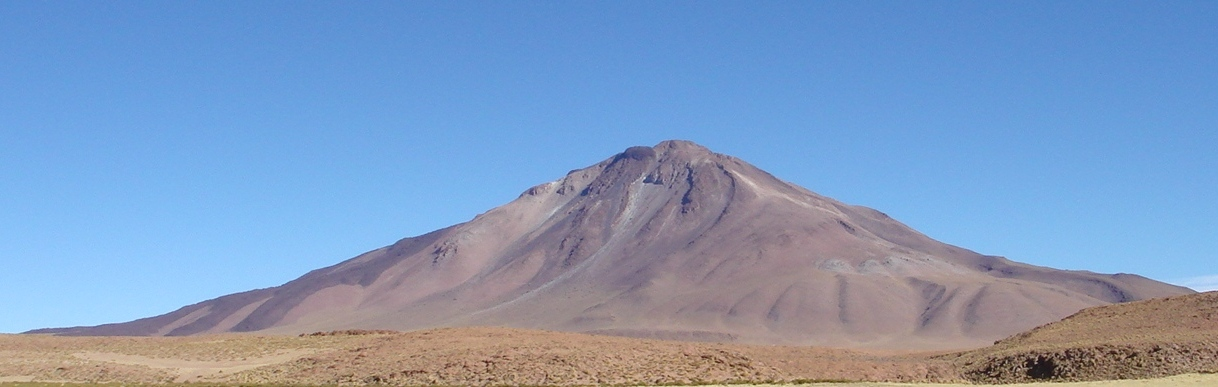 Cerro Tuzgle, an extinct stratovolcano in Susques Department, Jujuy Province, Argentina